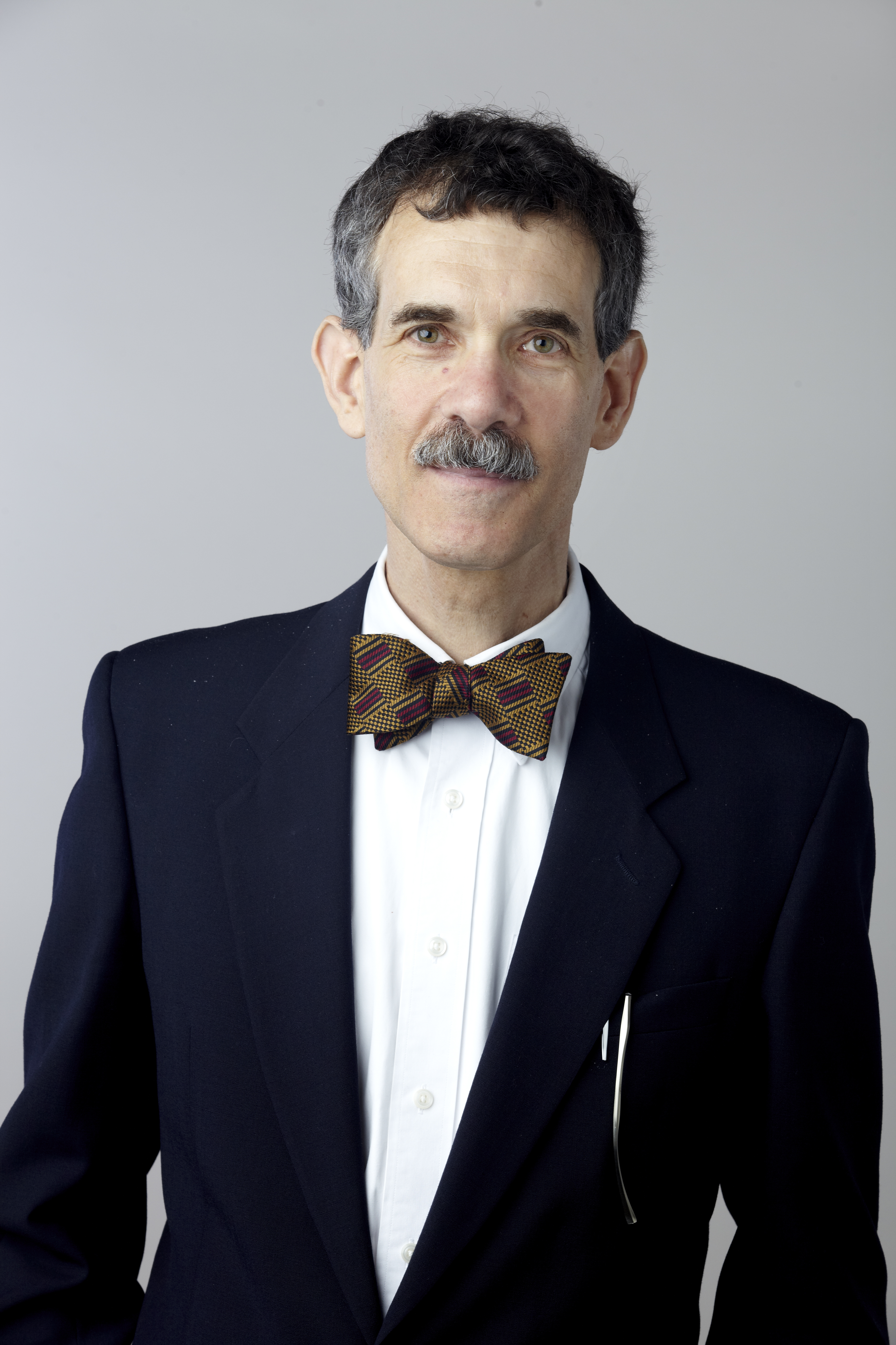 Professor David Ron FMedSci FRS, Royal Society Fellow elected 2014 Attribution: The Royal Society